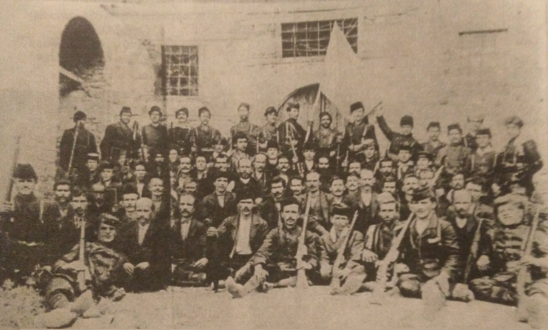 Dumbeni cheta 1908